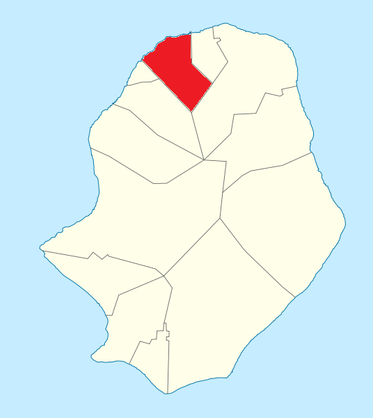 Location map for Hikutavake, Niue. Based on file:Niue location map.svg.